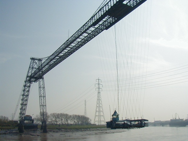 Newport Transporter Bridge Built in 1906 to solve the problem of bridging a navigable river. One of three surviving bridges of its kind in the UK. The others are at Teesside (NZ5021) and Warrington (SJ5987, now disused). Today, it is the longest bridge of its kind in the world, spanning 325m. On special days, the public are allowed to climb up the pylons and cross the river over the span.